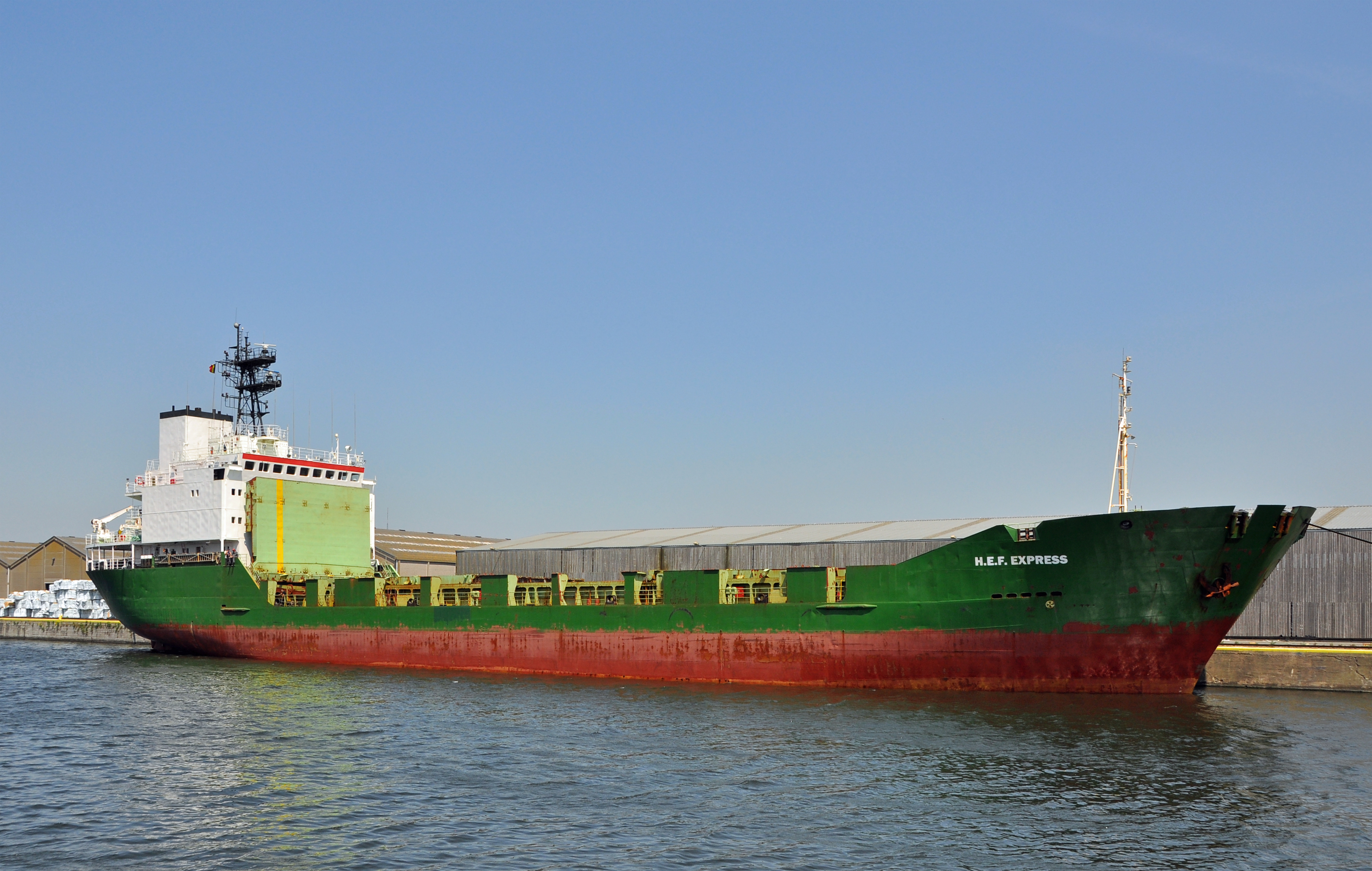 Cargo H.E.F. Express (IMO Nr 8918796 - owner: H.E.F. Marine Inc., Port Said, Egypt) in the port of Bruges, Belgium. Ship built in 1995. Former names: Walsertal (1995-2007), OMG Gatchina (2007-2010).